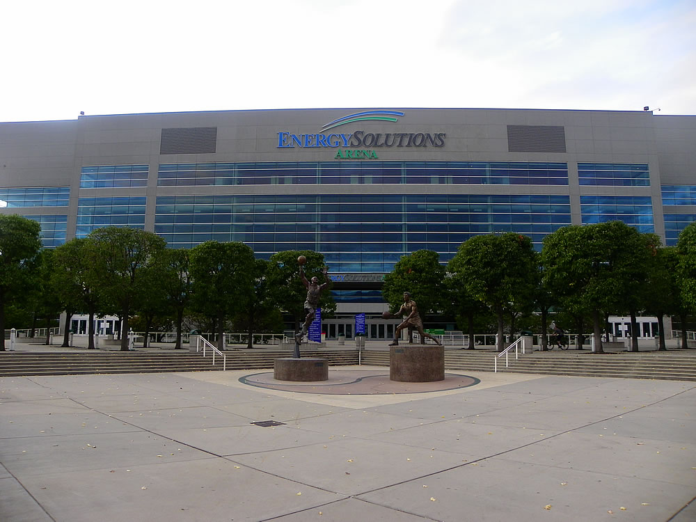 Energy Solutions Arena (formerly known as the Delta Center), in downtown Salt Lake City, Utah